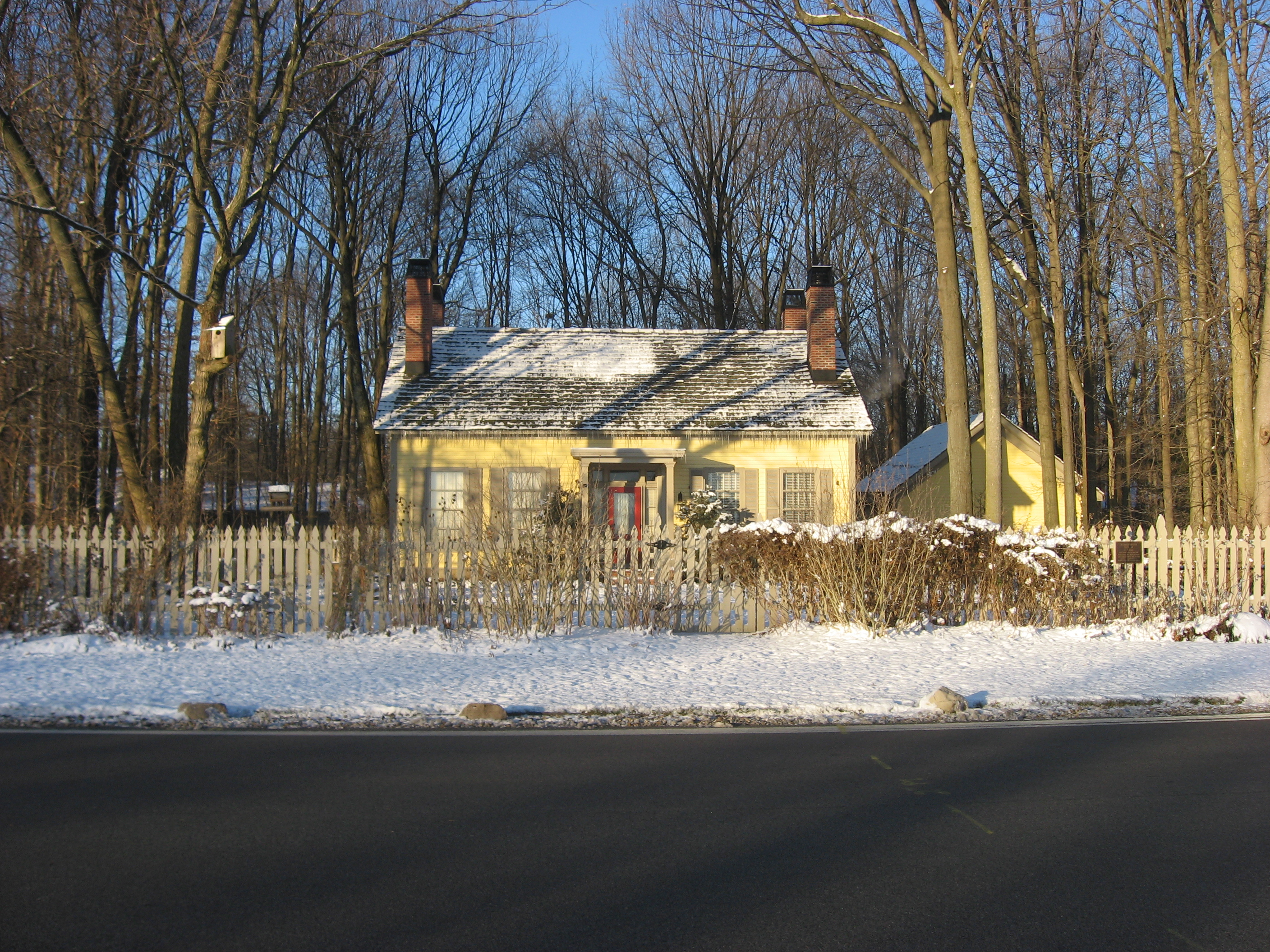 Front of the George Washington Tomlinson House, located at 5140 Reed Road in Pike Township, Marion County (Indianapolis), Indiana, United States. Built in 1862 by one of the area's earliest settlers, the house is listed on the National Register of Historic Places.